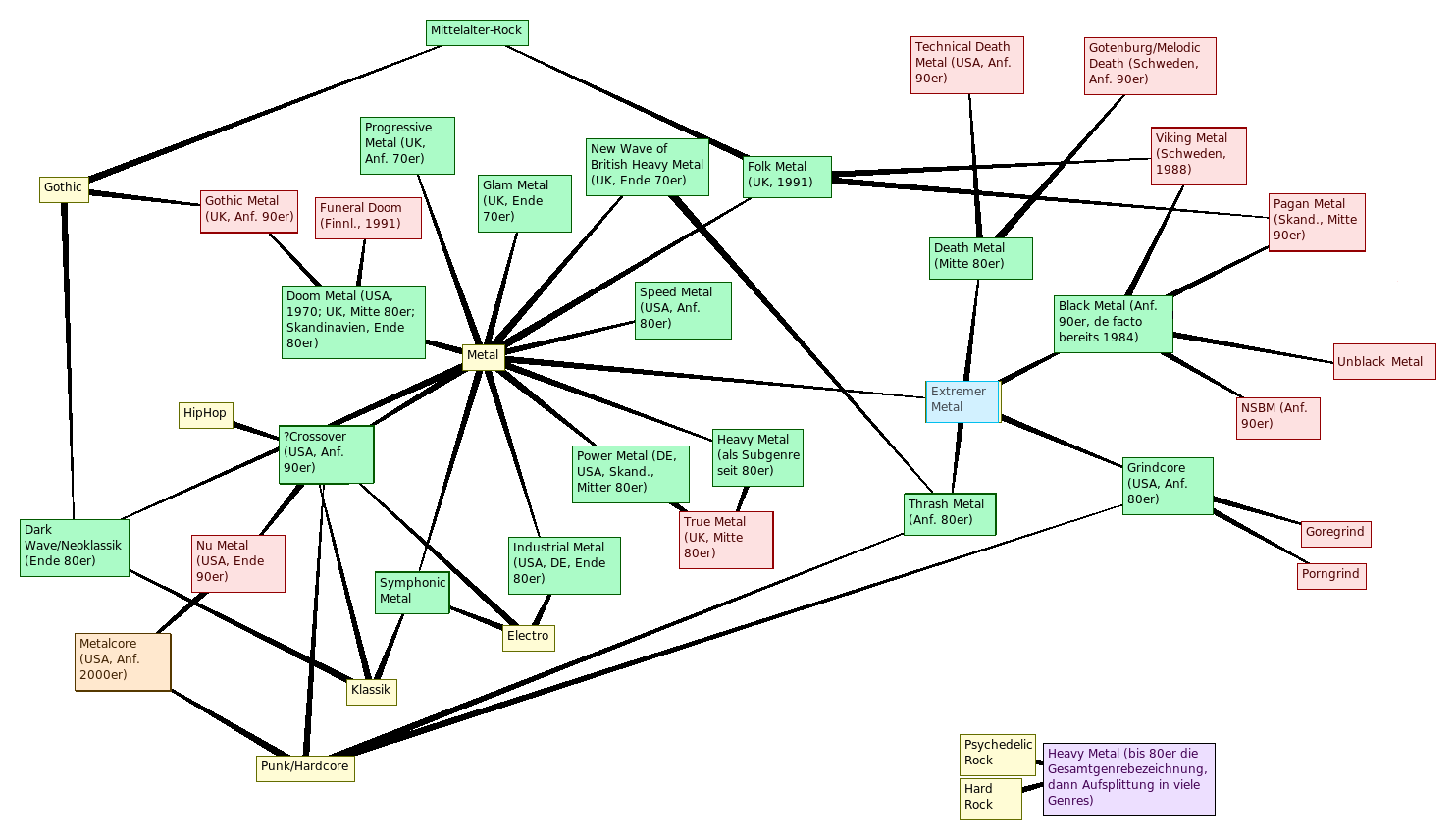 An overview on different metal genres and how they are connected